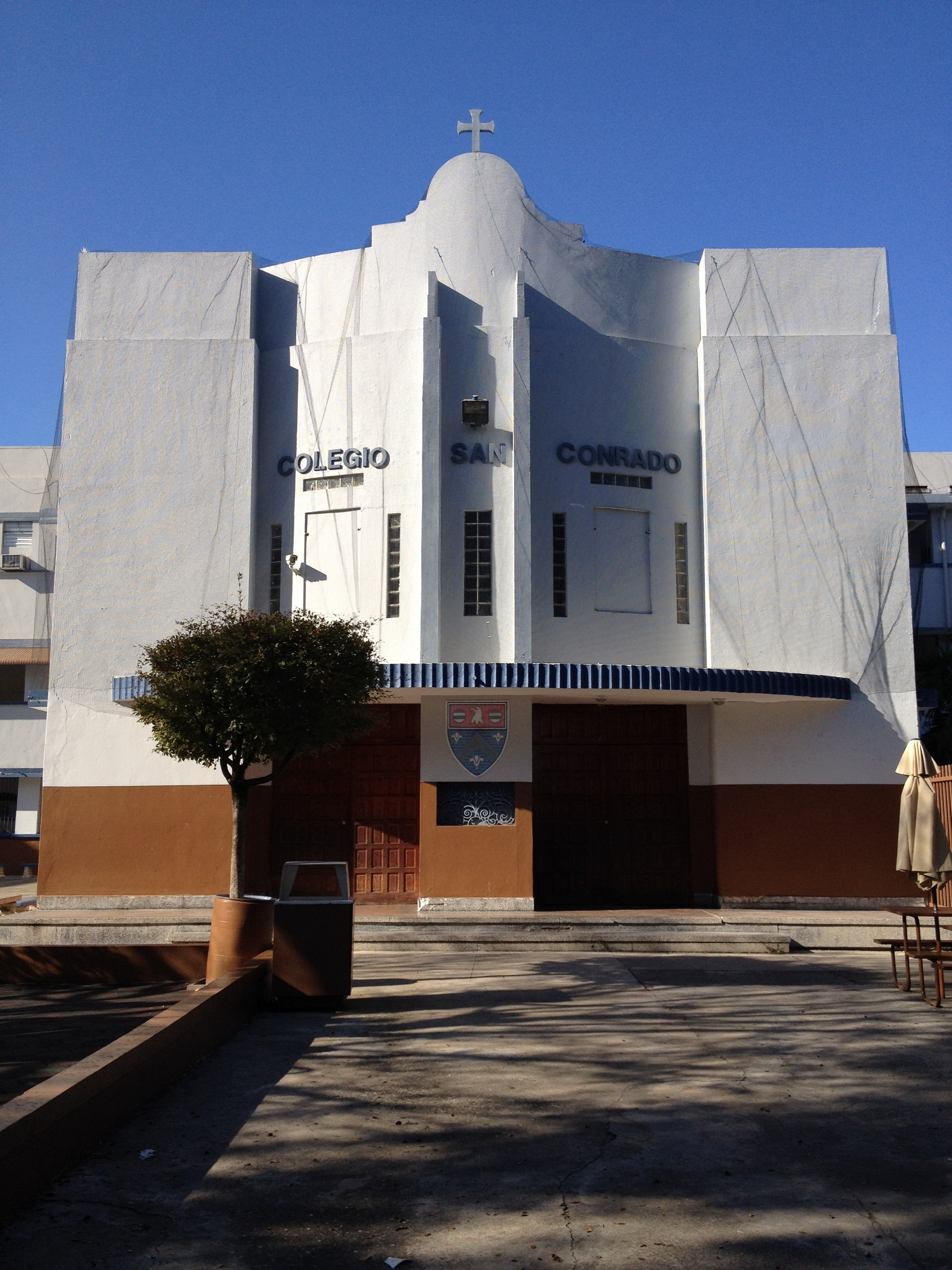 Entrance